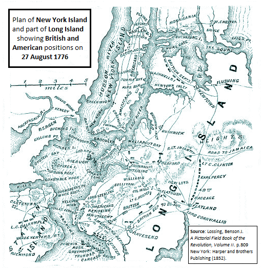 Map showing the positions of the British and American armies at the Battle of Long Island on 27 August 1776